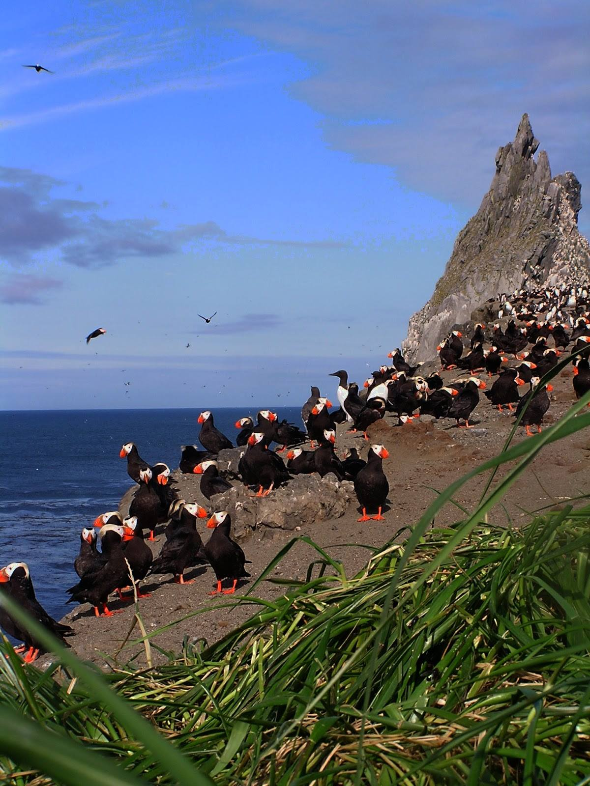 group of Tufted Puffins (and a couple of Murres) on Bogoslof Island by Judy Alderson/USFWS.